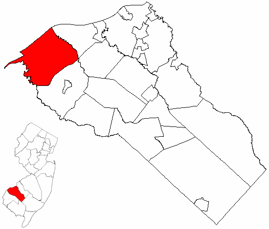 Map of Gloucester County highlighting Logan Township